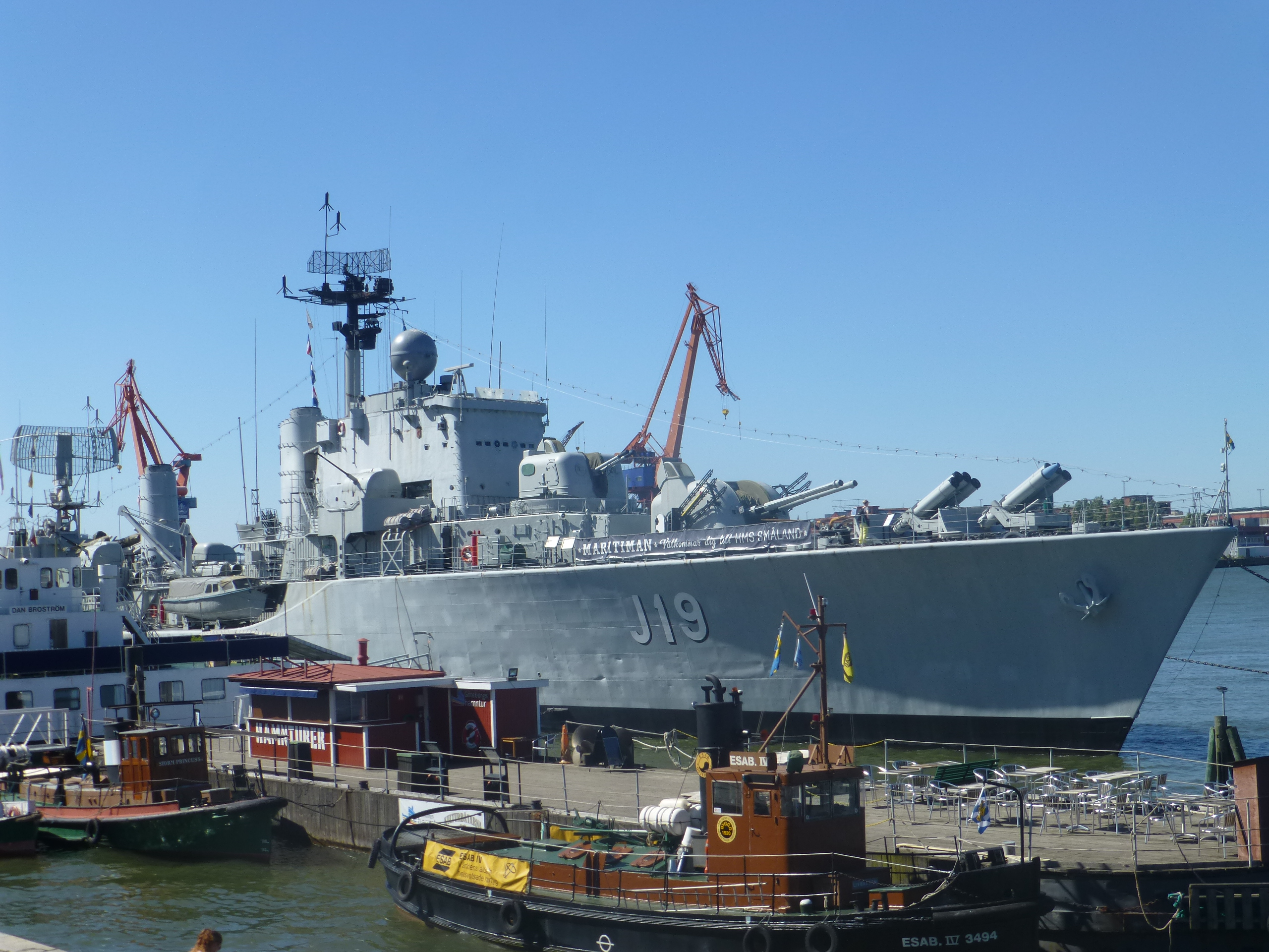 The destroyer HMS Småland from 1952 at the naval museum Maritiman in Göteborg.